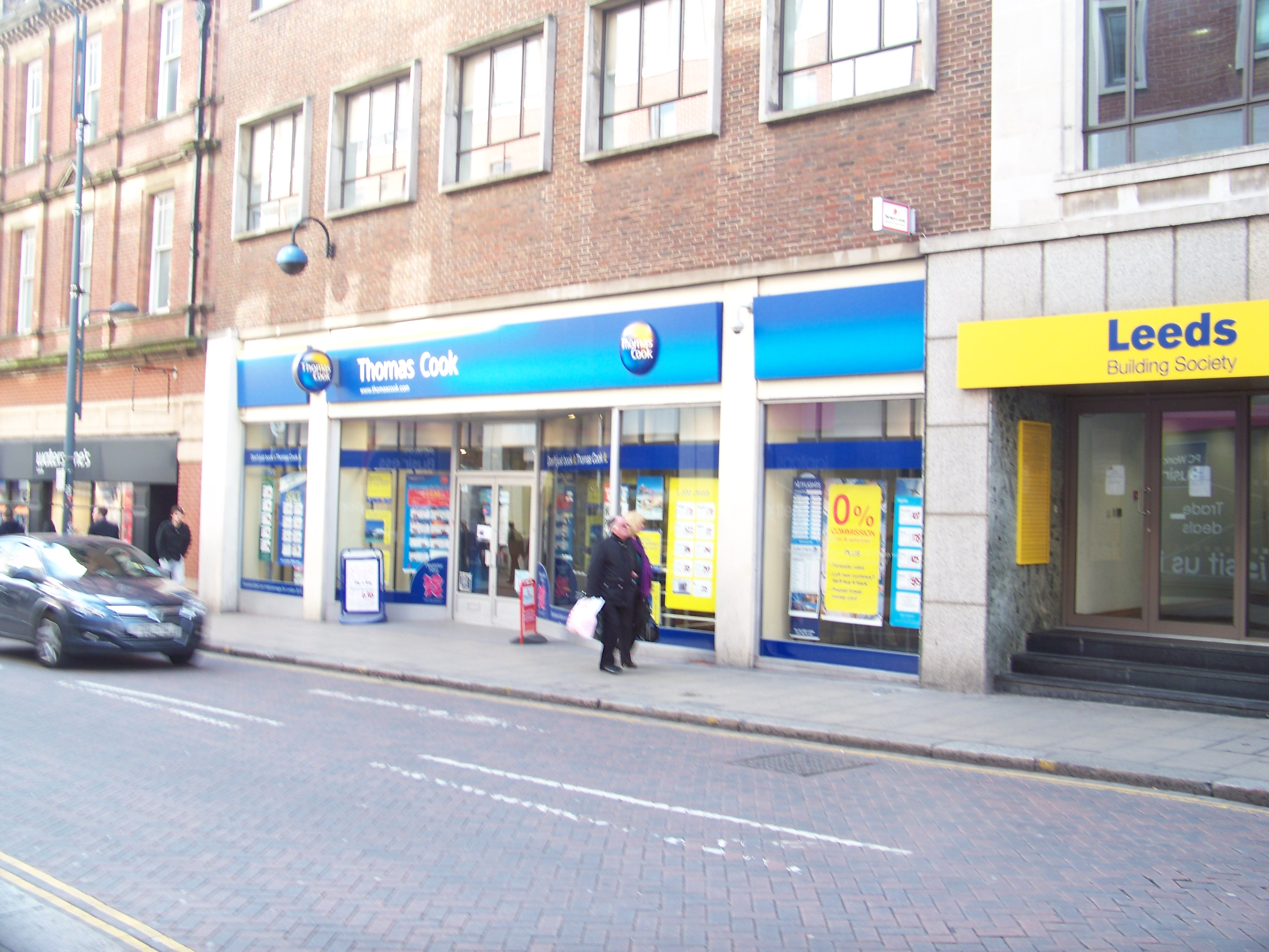 Leeds